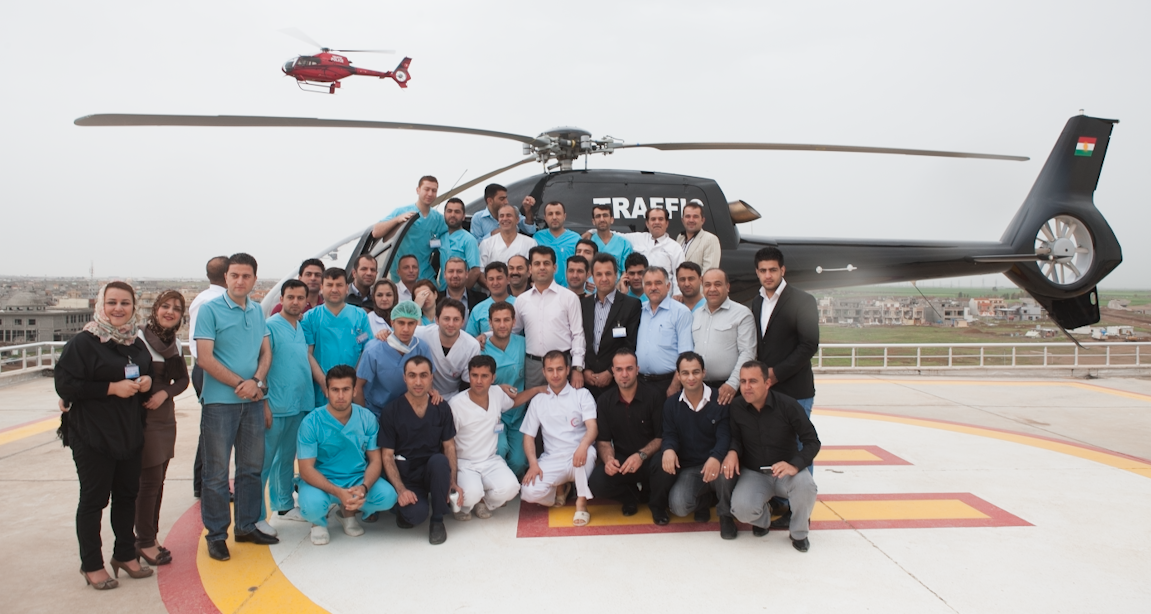 Crew and medical personnel on a helipad in front of one of Kurdistan Traffic Police's helicopters